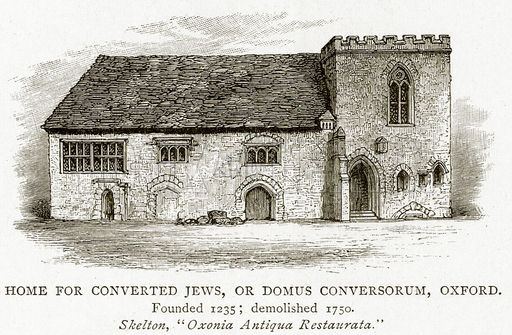 Home for converted Jews, or Domus Conversorum, Oxford. Illustration from A Short History of the English People by J R Green (Macmillan, 1892).